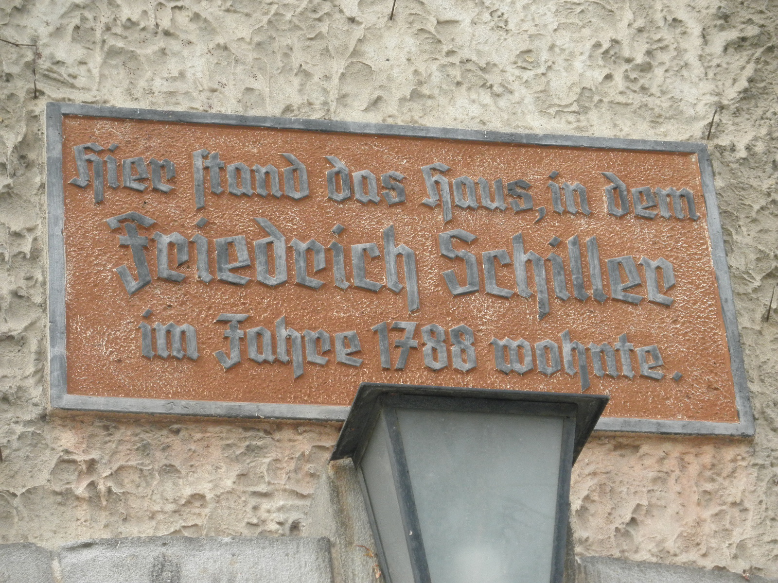 Volkstedt (Rudolstadt) Memorial Tablet for Friedrich Schiller